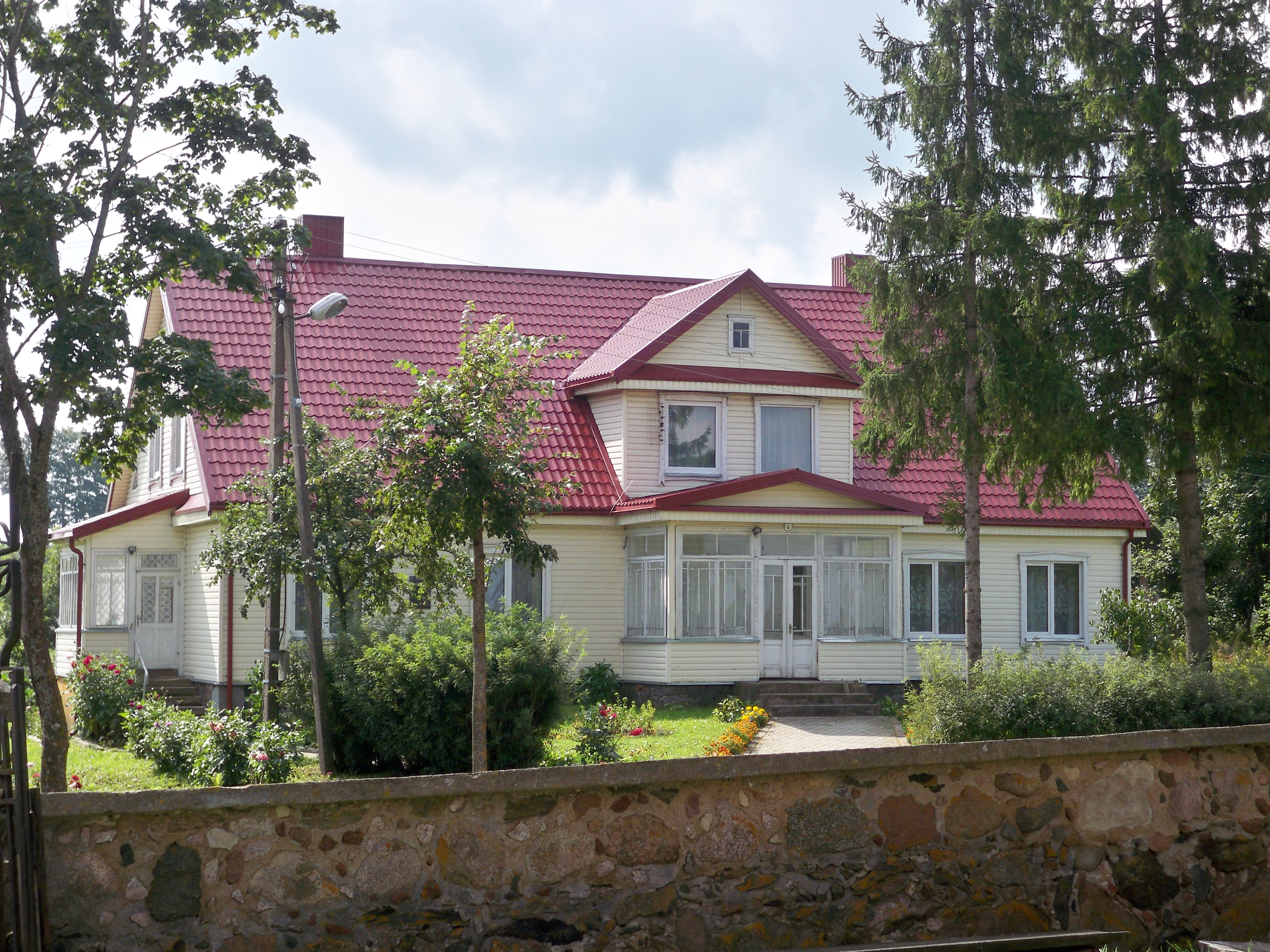 Daugailiai church rectory (until WW2).